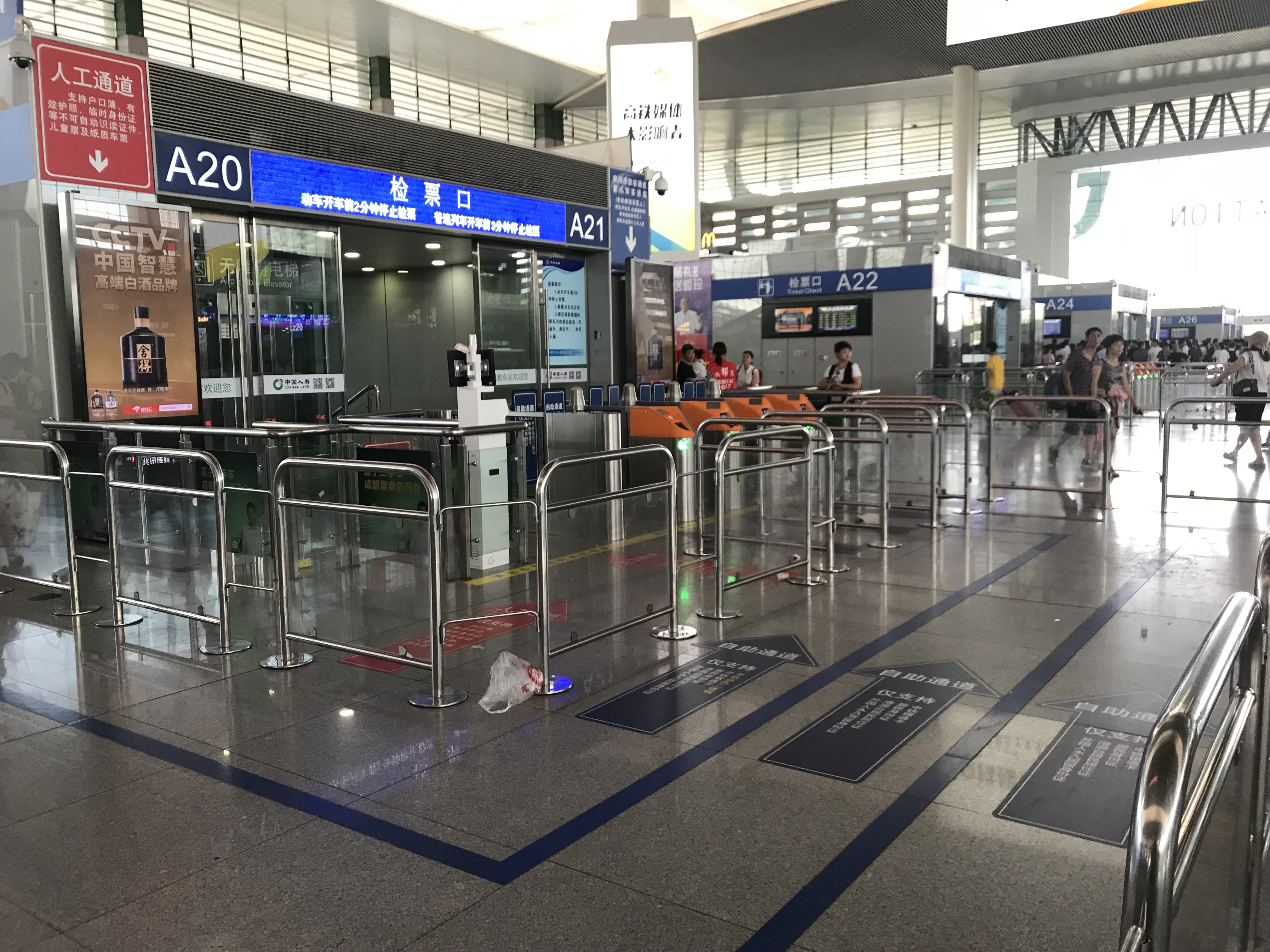 201908 Fences In Front of Boarding Gates at Chengdudong Station